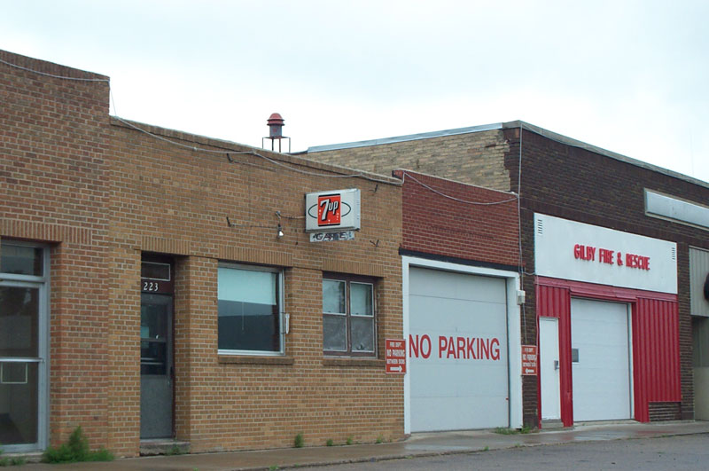 Gilby, North Dakota. From .